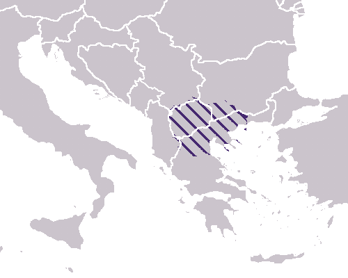 Macedonia during Ottoman period. Self made.